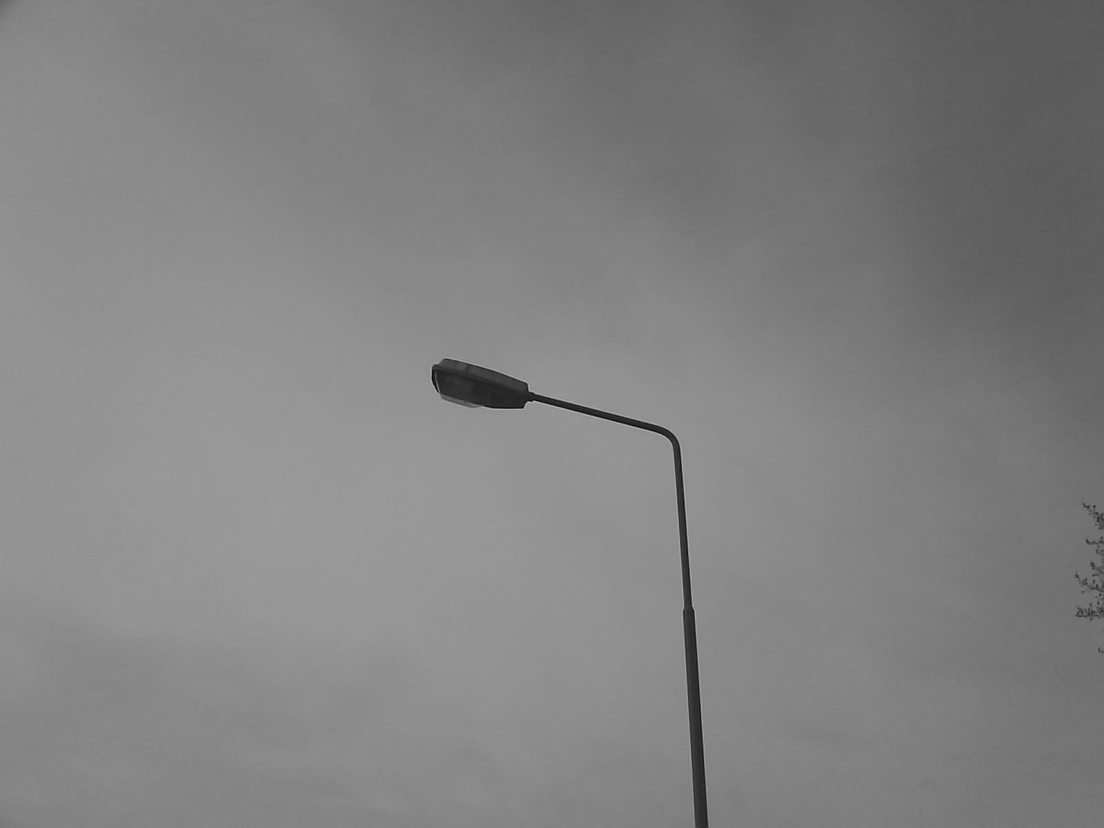 45-degree bended pole, street light in Sweden